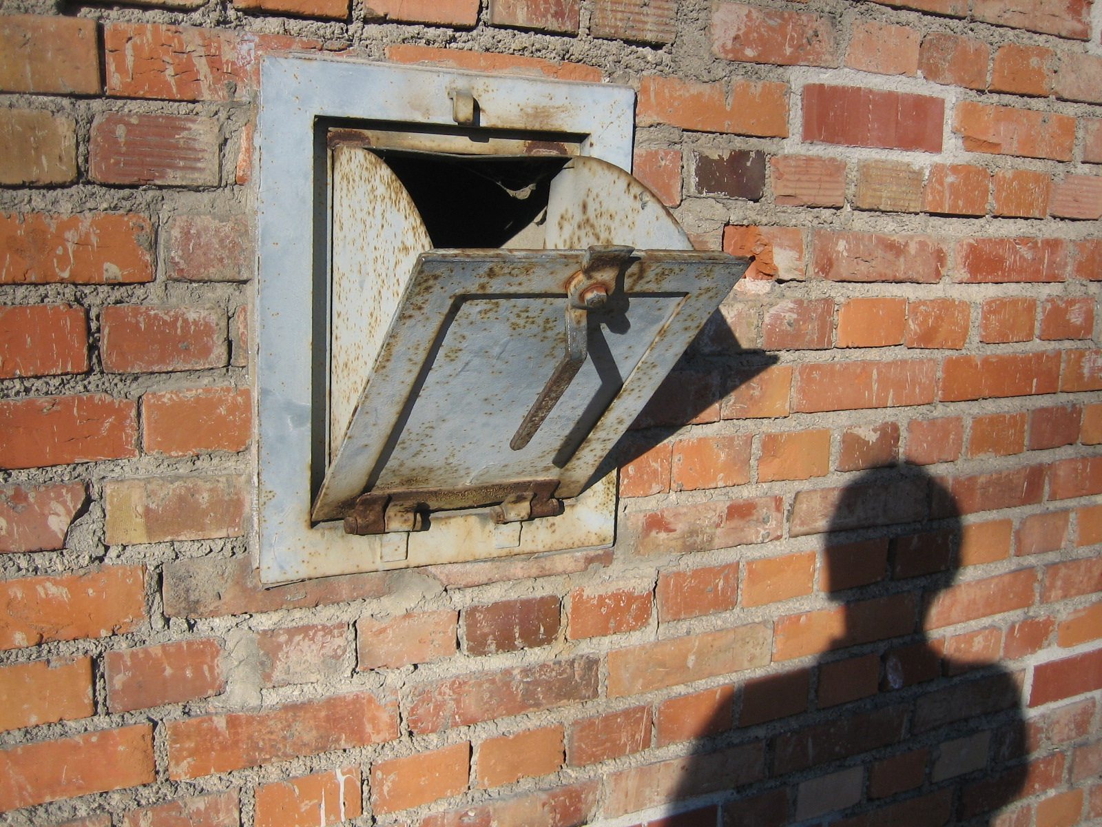 Dachau, gas chambers from its exposition, vents opening used to put cans with gas